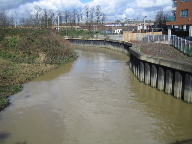 River Roding in Ilford Viewed looking upstream from the Ilford Hill road bridge, which is at the NTL (normal tidal limit) of the Roding.